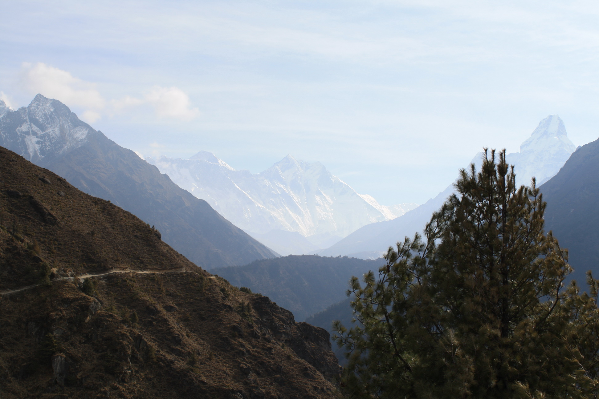 Ama Dablam In the background right, in the middle Mount Everest.